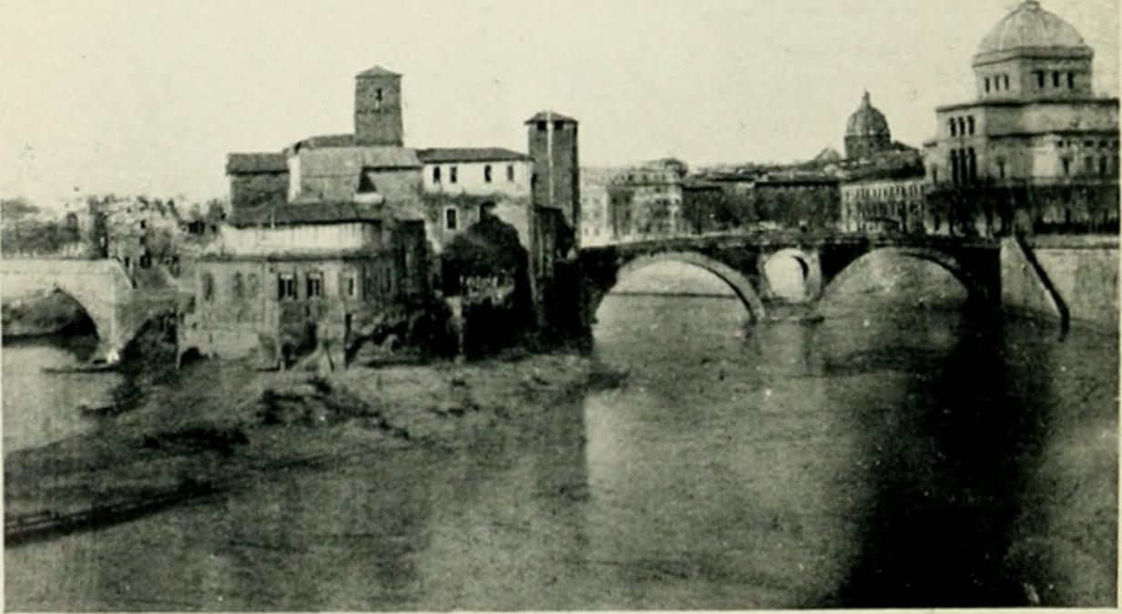 Isola Tiberina - Image from page 223 of "Walks in Rome (including Tivoli, Frascati, and Albano)" (1913)